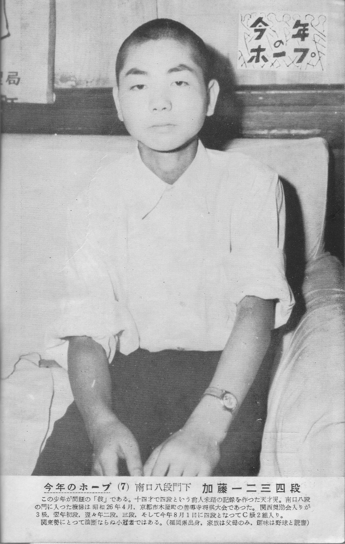 Hifumi Katō. taken in 1954.